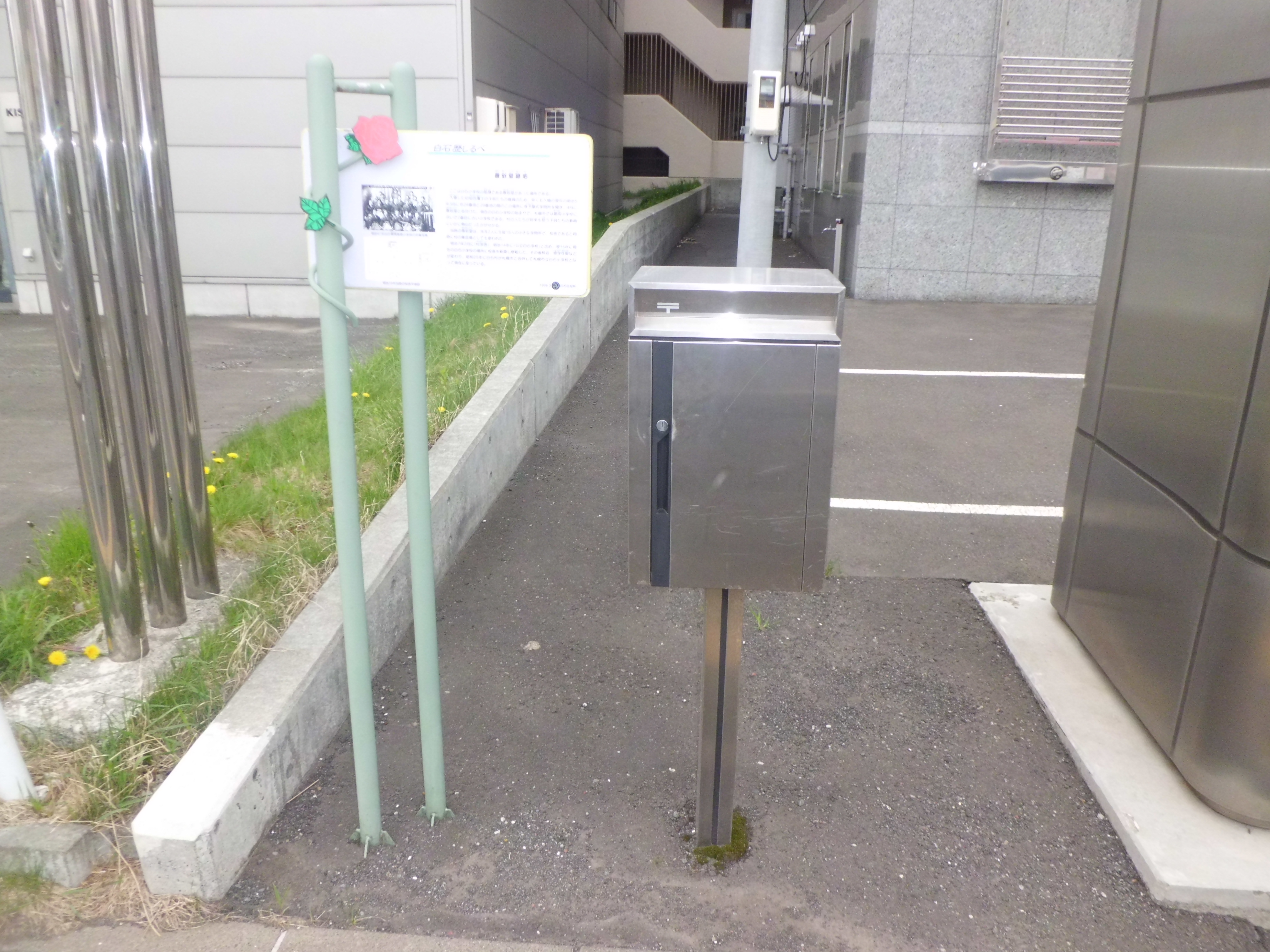 Monument to Zenzoku-do, later Shiroishi Elementary School.